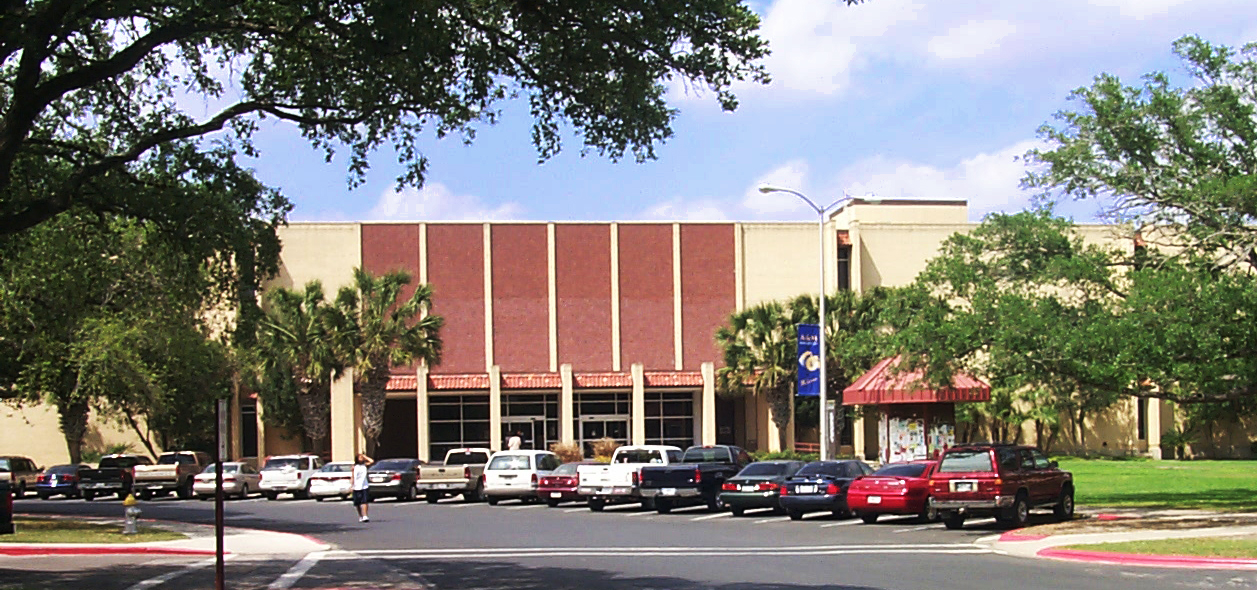 James C. Jernigan Library at TAMUK